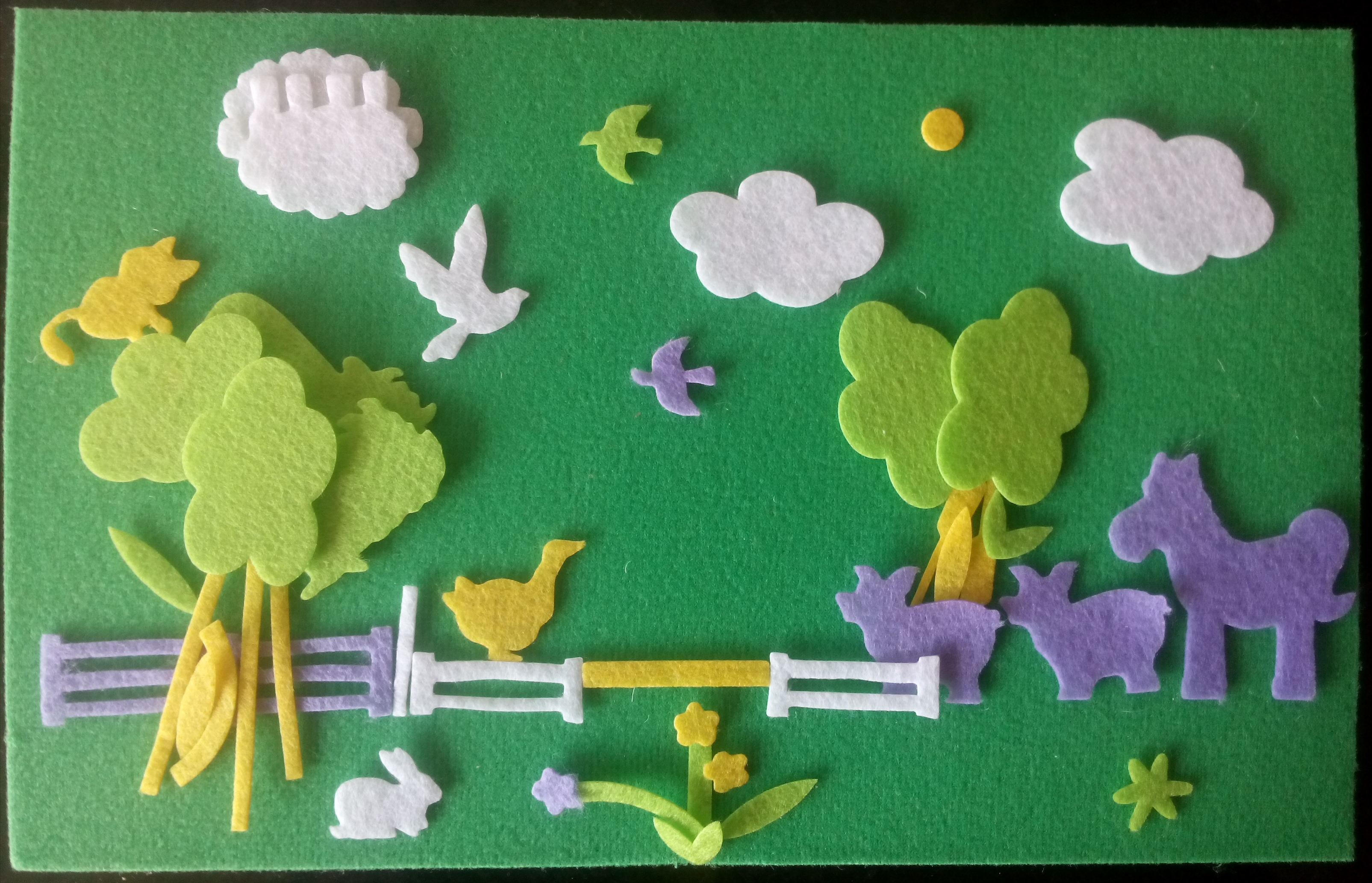 Fuzzy-Felt composition by a thirty-nine-year-old of a farmyard scene.